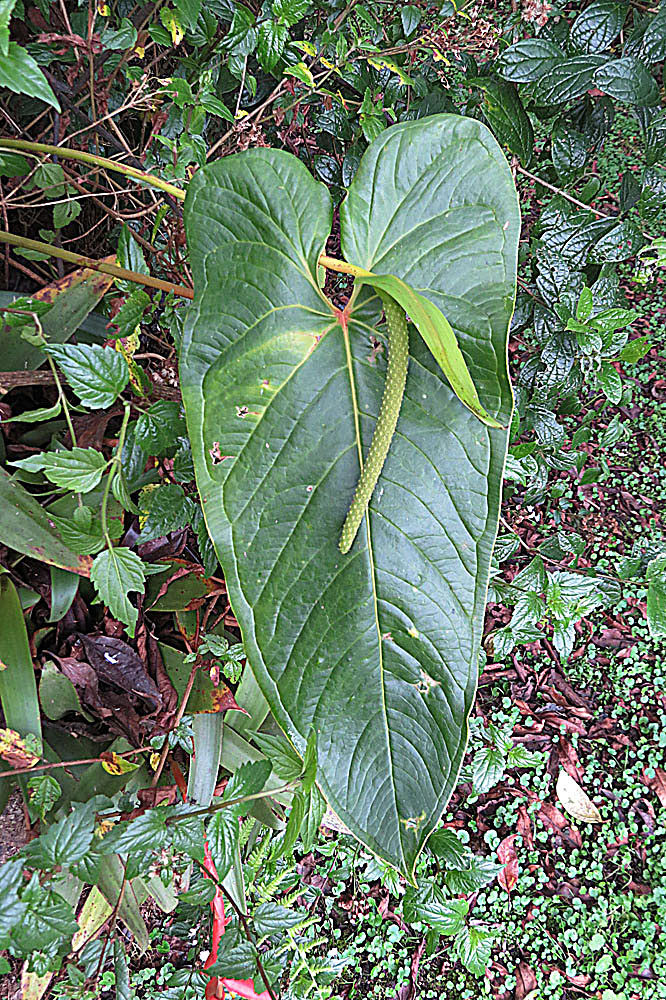 Native to the Andes from Colombia to northern Peru. Photo from Papallacta Hotsprings, Ecuador, where it is known as Pugxi.